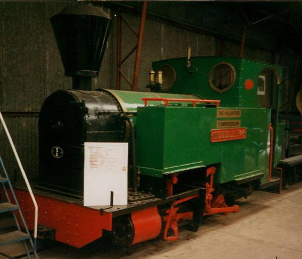 Locomotive Sezela No. 4 at Gelert's Farm